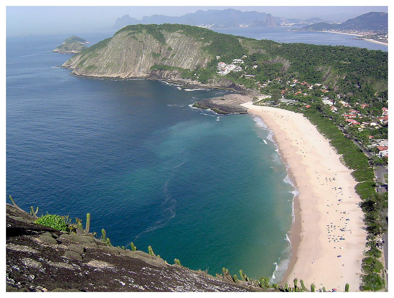 Itacoatiara Beach - This is the farthest ocean beach from the downtown. The name came from Itacuatiara, something like Drawing Stone or Stone with Scripitions. *View of Itacoatiara beach from the Costão [ Montain ]